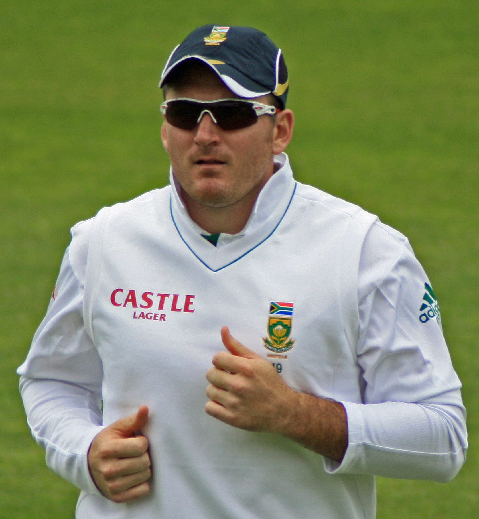 Graeme Smith in the field for South Africa during a tour match against Somerset in 2012.